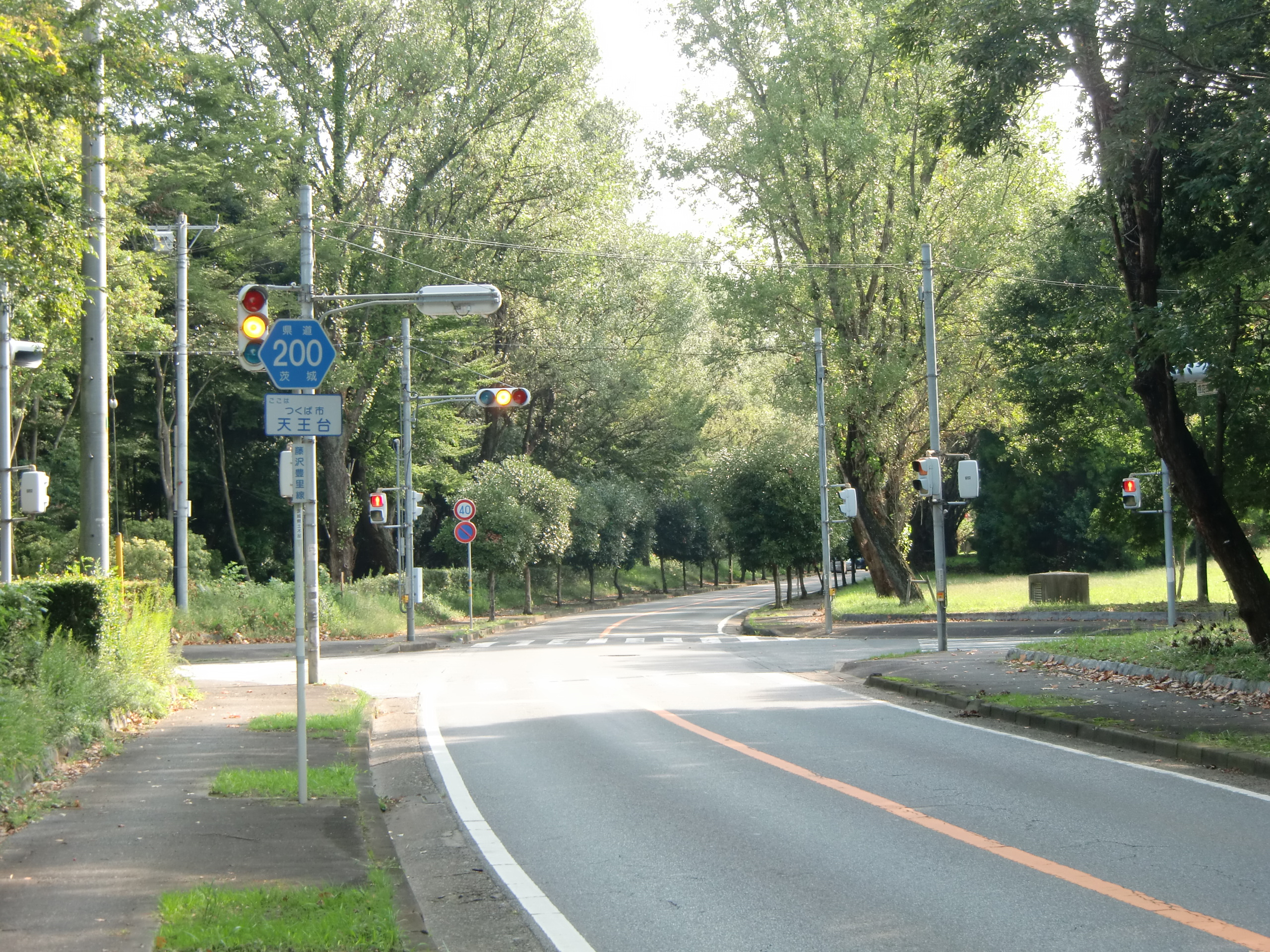 Ibaraki prefectural road 200,Fujisawa-Toyosato line, in Tennoudai, Tsukuba, Ibaraki, Japan. This road passes University of Tsukuba(Tsukuba Campus).